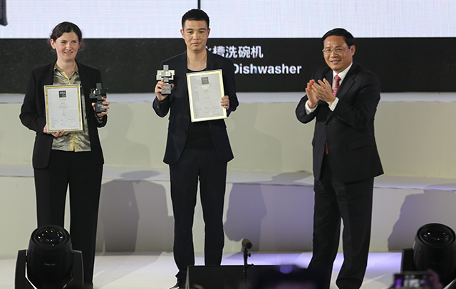 Governor of Zhejiang Province Li Qiang presents the DIA Gold Awards to winners